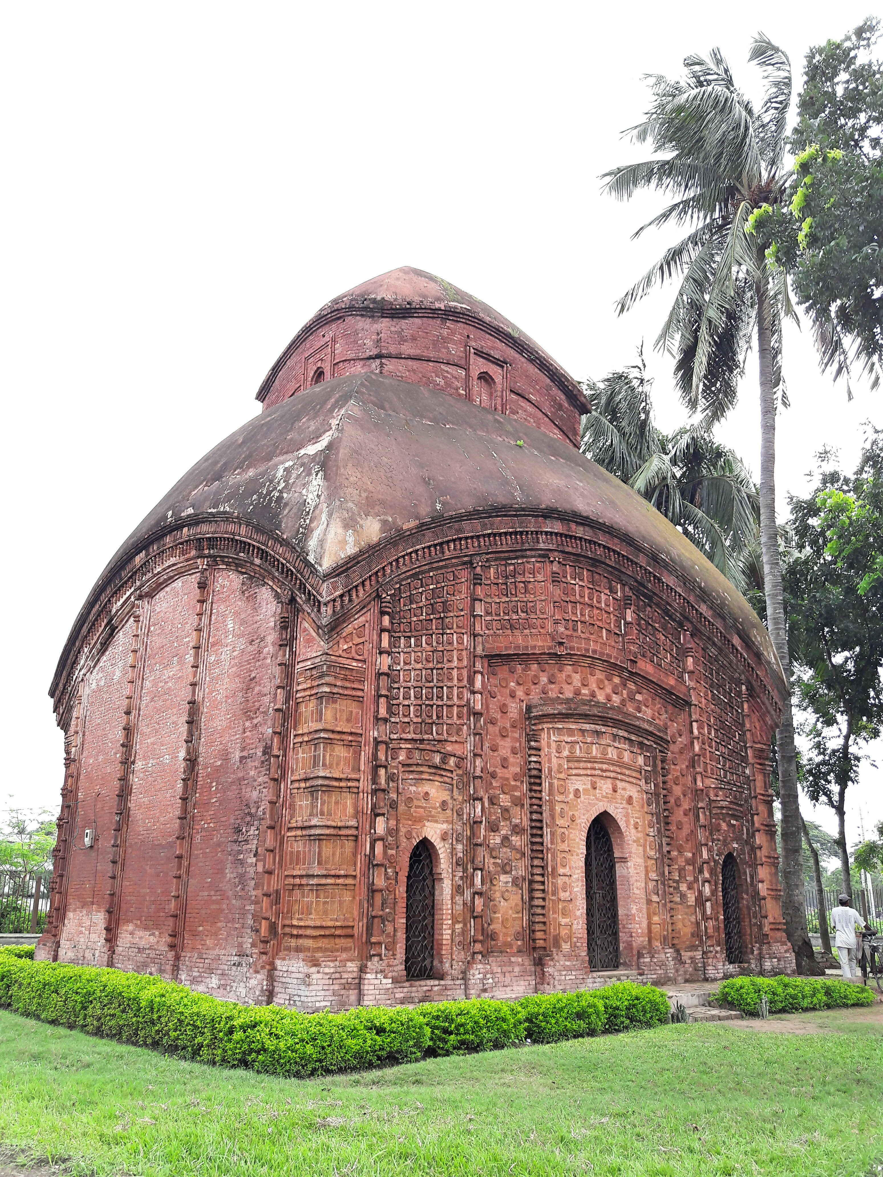 Situated in Jessore